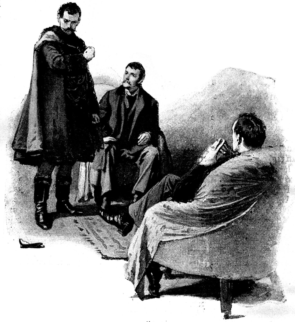 Illustration from the Sherlock Holmes story "Adventures of Sherlock Holmes I.--A Scandal in Bohemia", which appeared in The Strand Magazine in July, 1891. This illustration appeared on page 65, and is captioned "HE TORE THE MASK FROM HIS FACE."